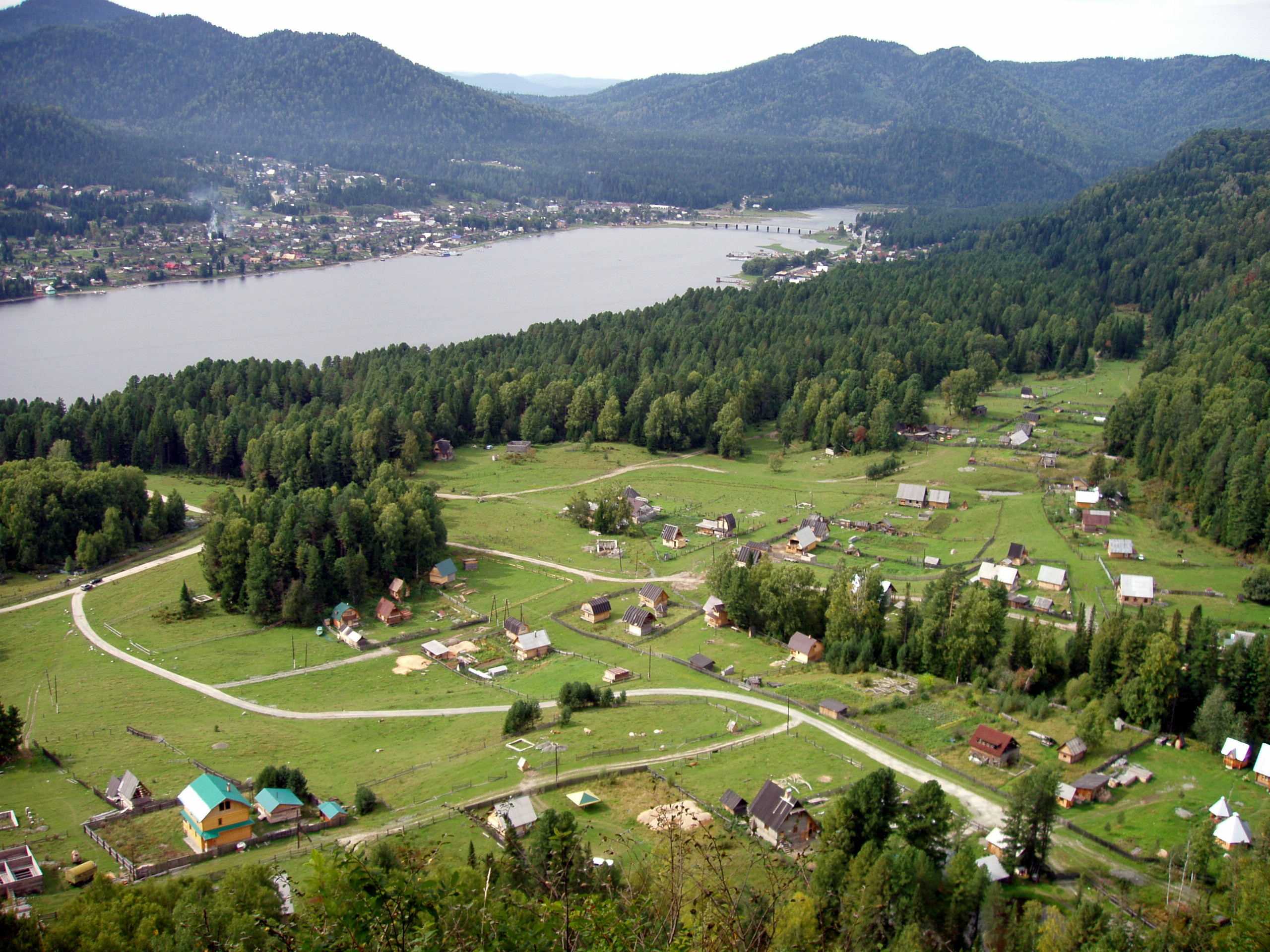 Lake Teletskoye.